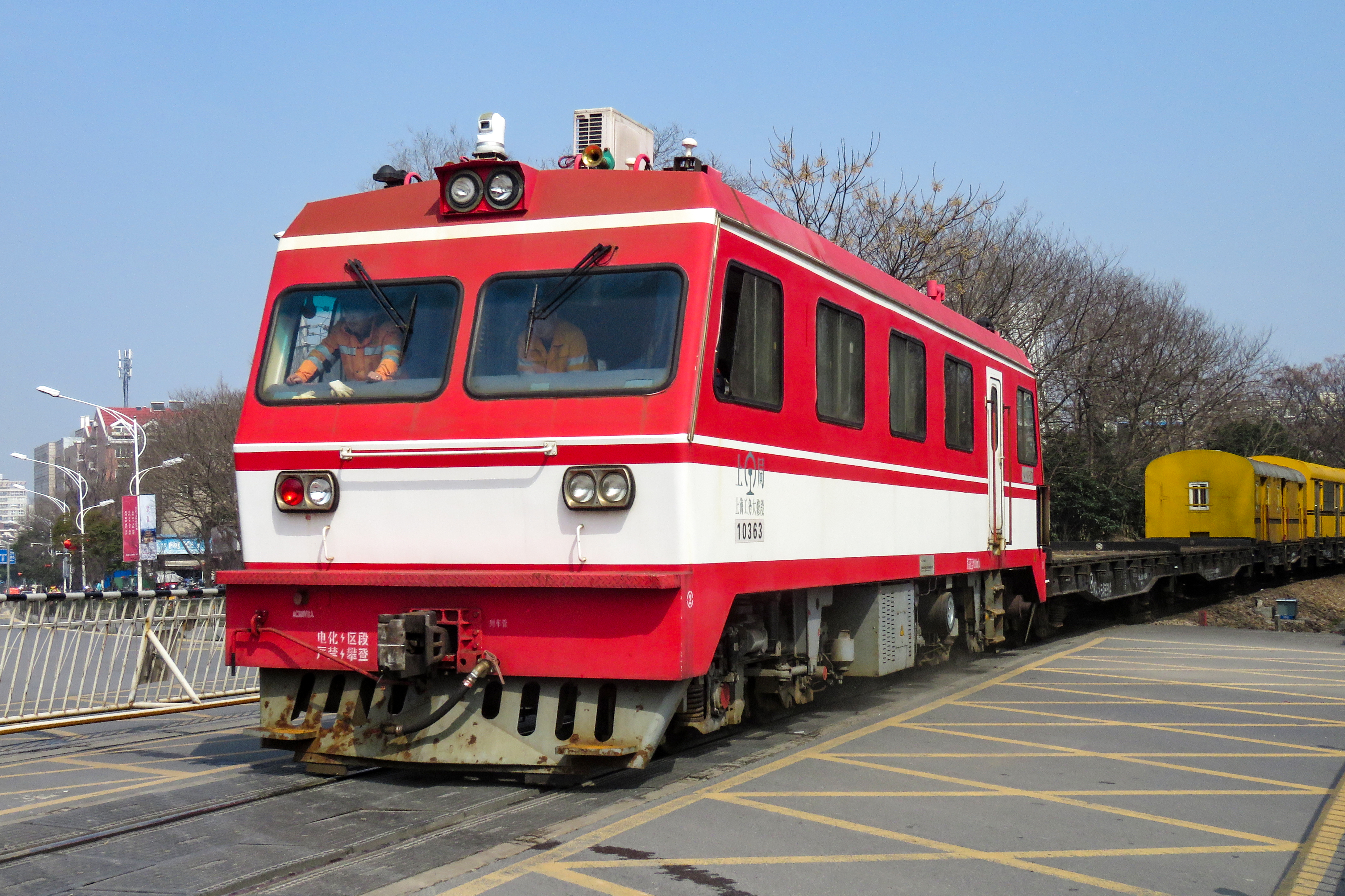 Maintenance train hauled by Qinling GC-270.